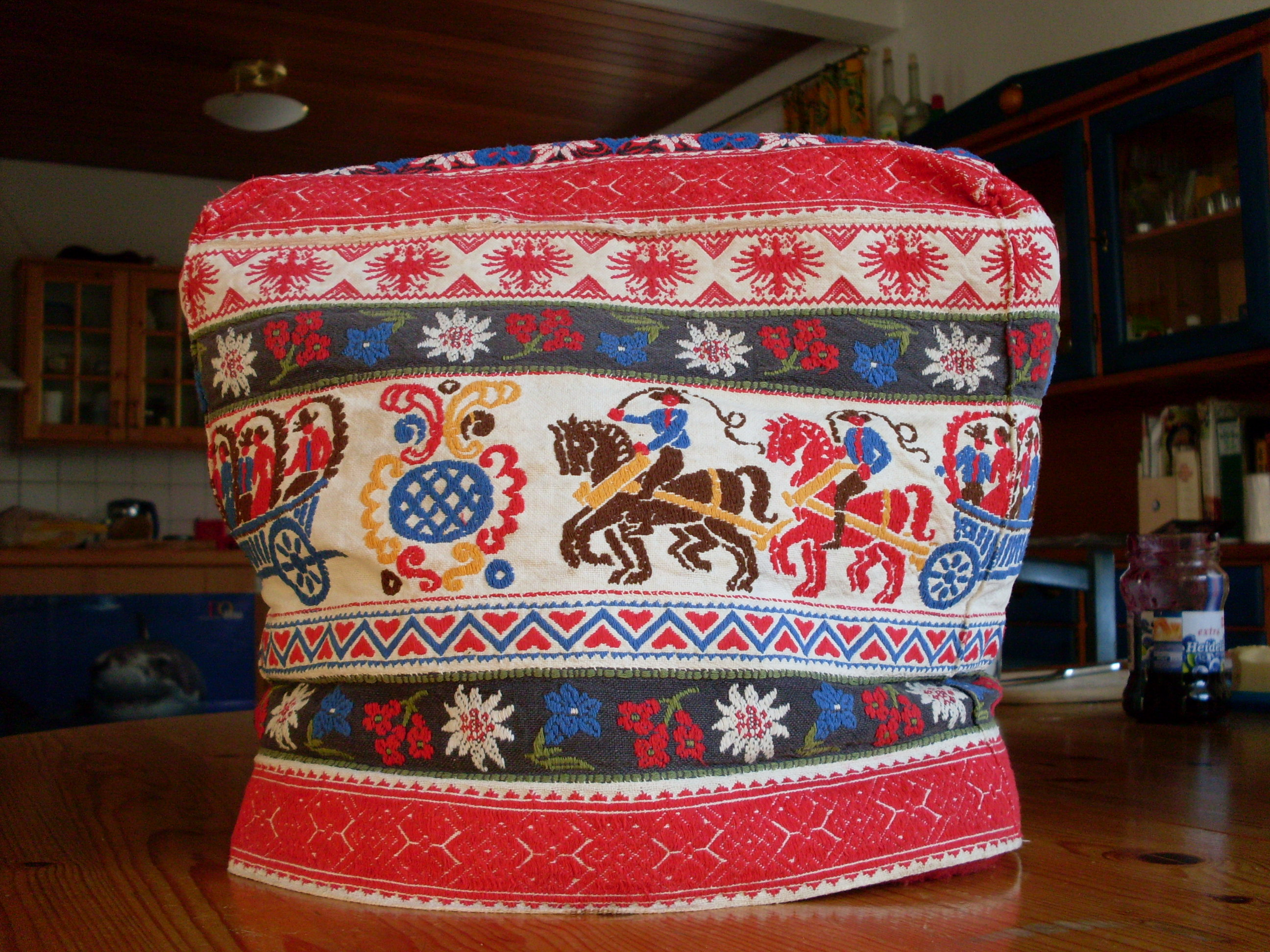 Traditional German tea cosy, a least 60 years old..